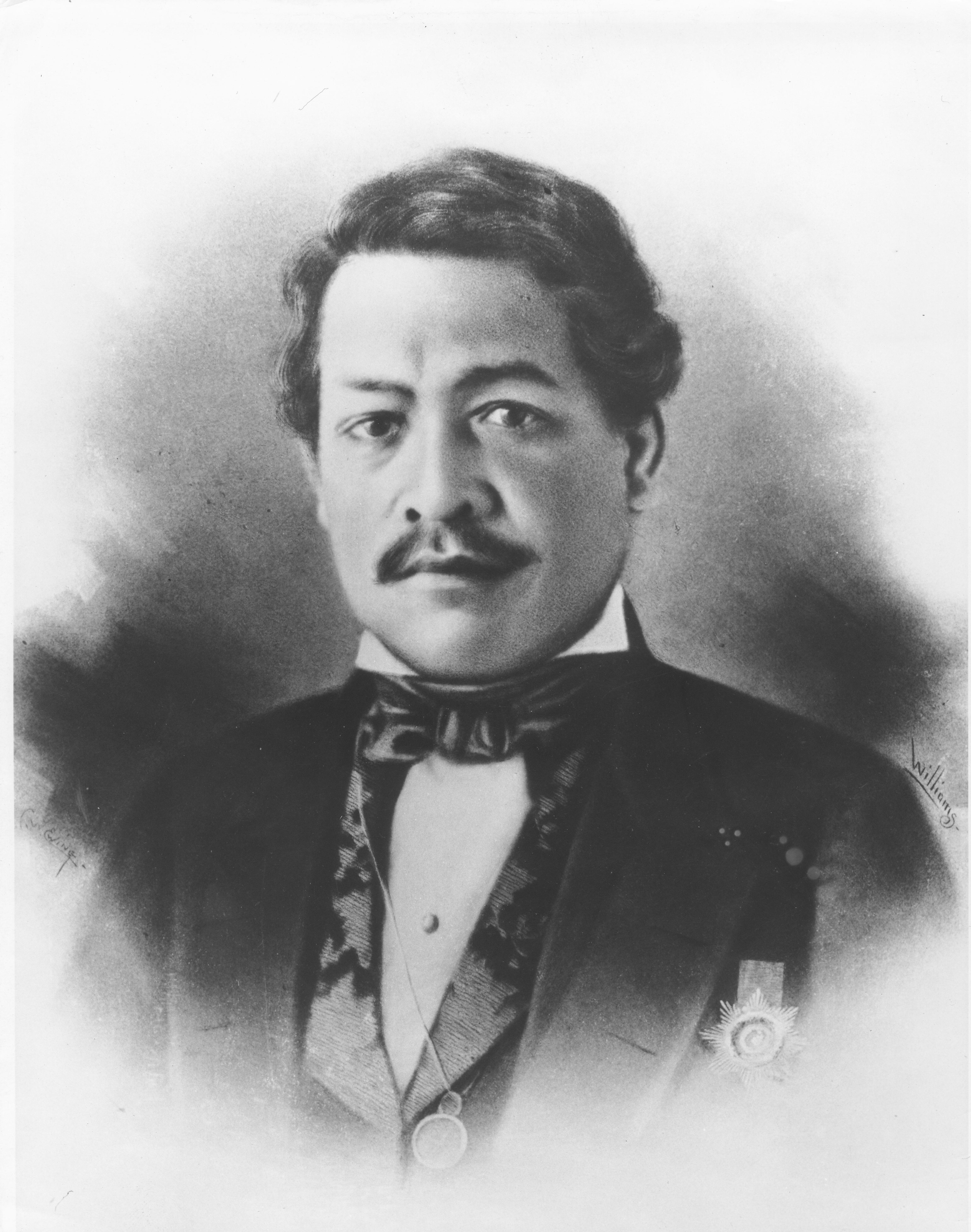 Royal Portrait Photograph of Kamehameha III